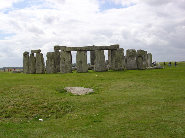 Stonehenge.